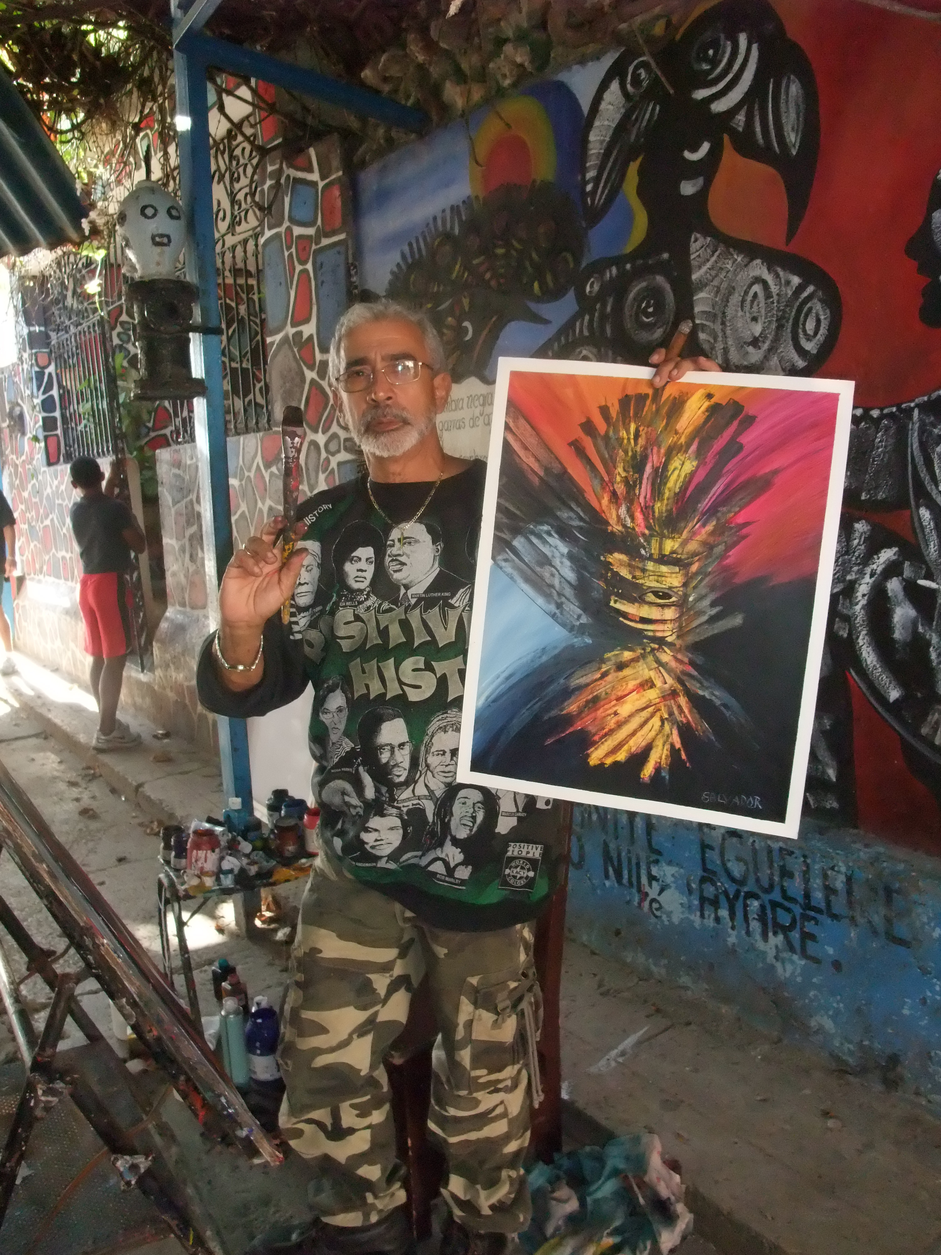 Photo of Salvador Gonzáles Escalona at work in Callejón de Hamel, with his painting "Makuto".